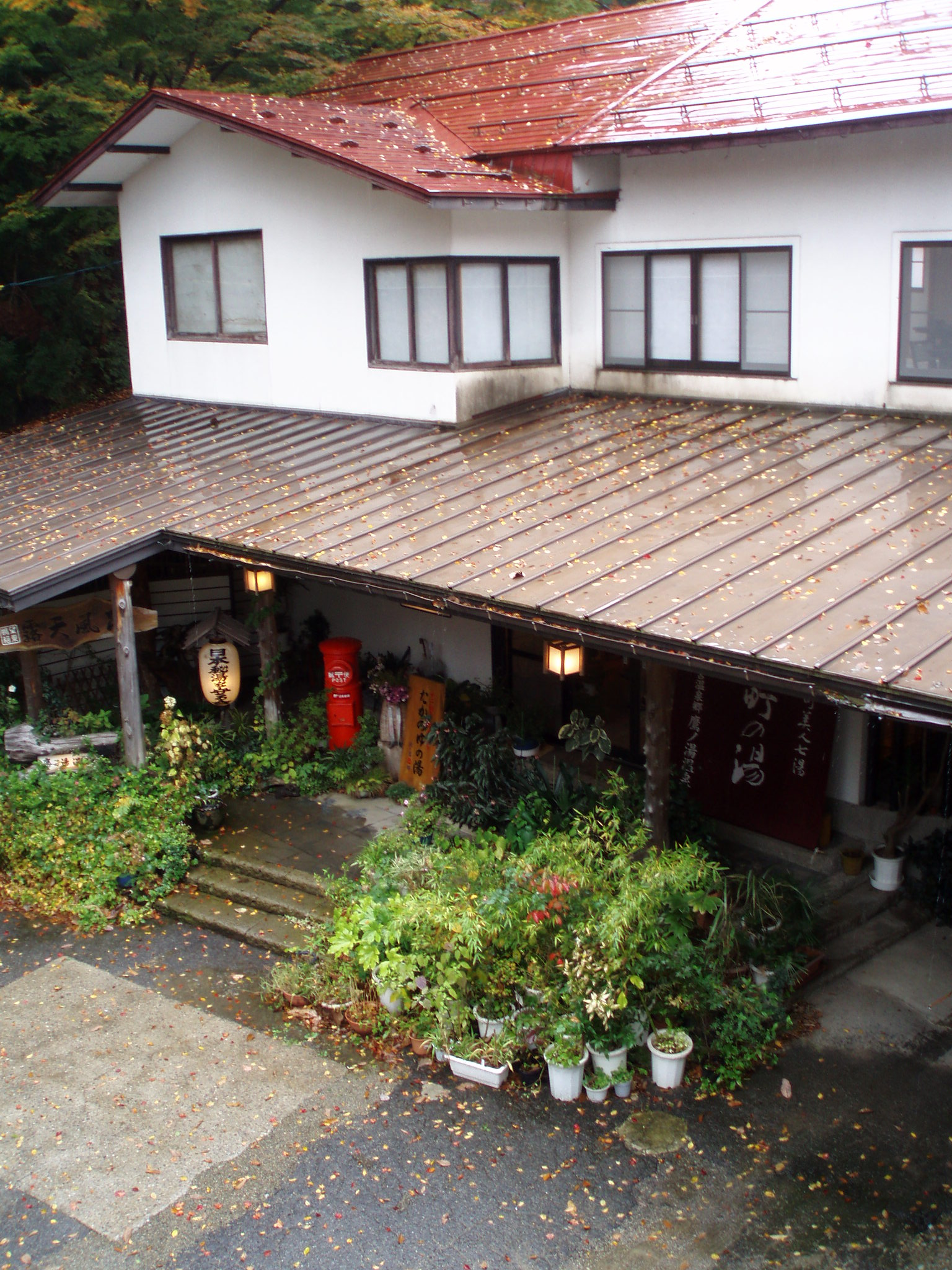 Photo of Takanoyu Onsen front entrance, Akita Prefecture, Japan